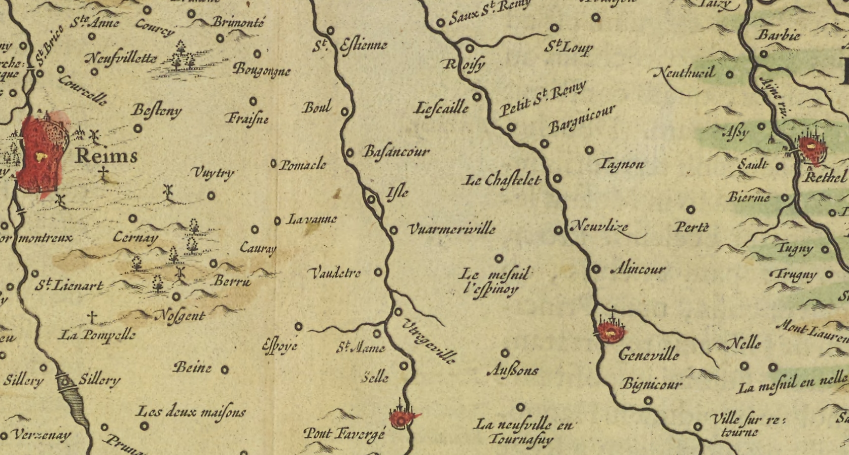 A cropped map of the Rheims to Rethel country, from a larger 1665 map. Author: Joan Blaeu, First publication: 1665. This is a constructed version from David Rumsey's collection. "This work is licensed under a Creative Commons License"